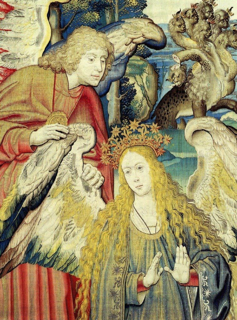 St. John the Evangelist and Woman of the Apocalypse